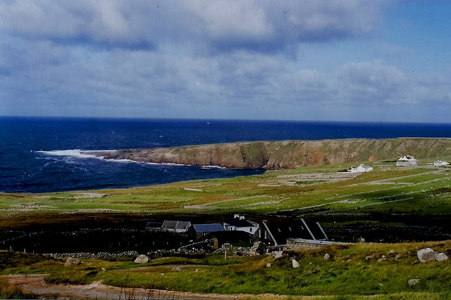 Gweedore area - Bloody Foreland As seen from R257. The name "Bloody Foreland" came about because of the colours of this piece of land that are present when the sun is setting.